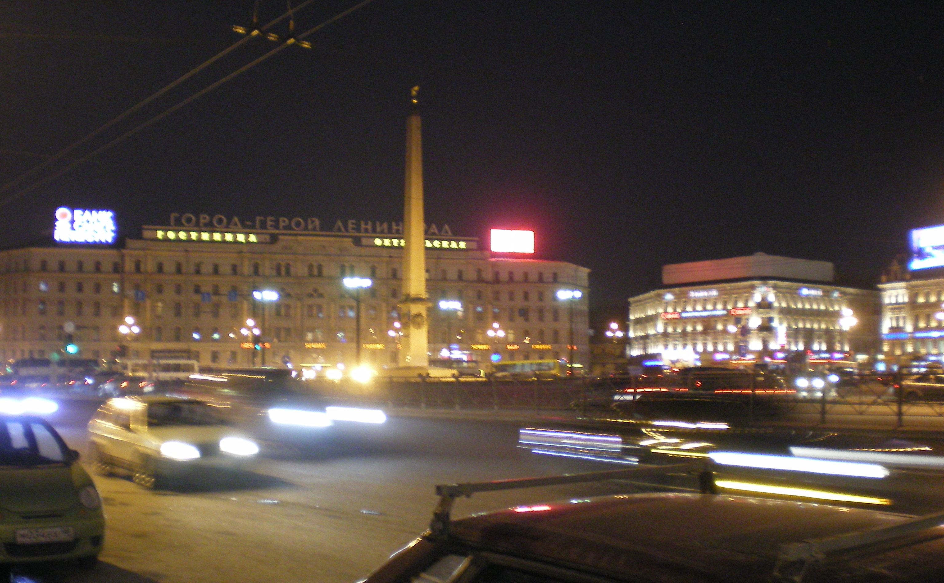 Vosstaniya Square, Oktyabrskaya hotel and Obelisk design by V. S. Lukyanov and A. I. Alymov.